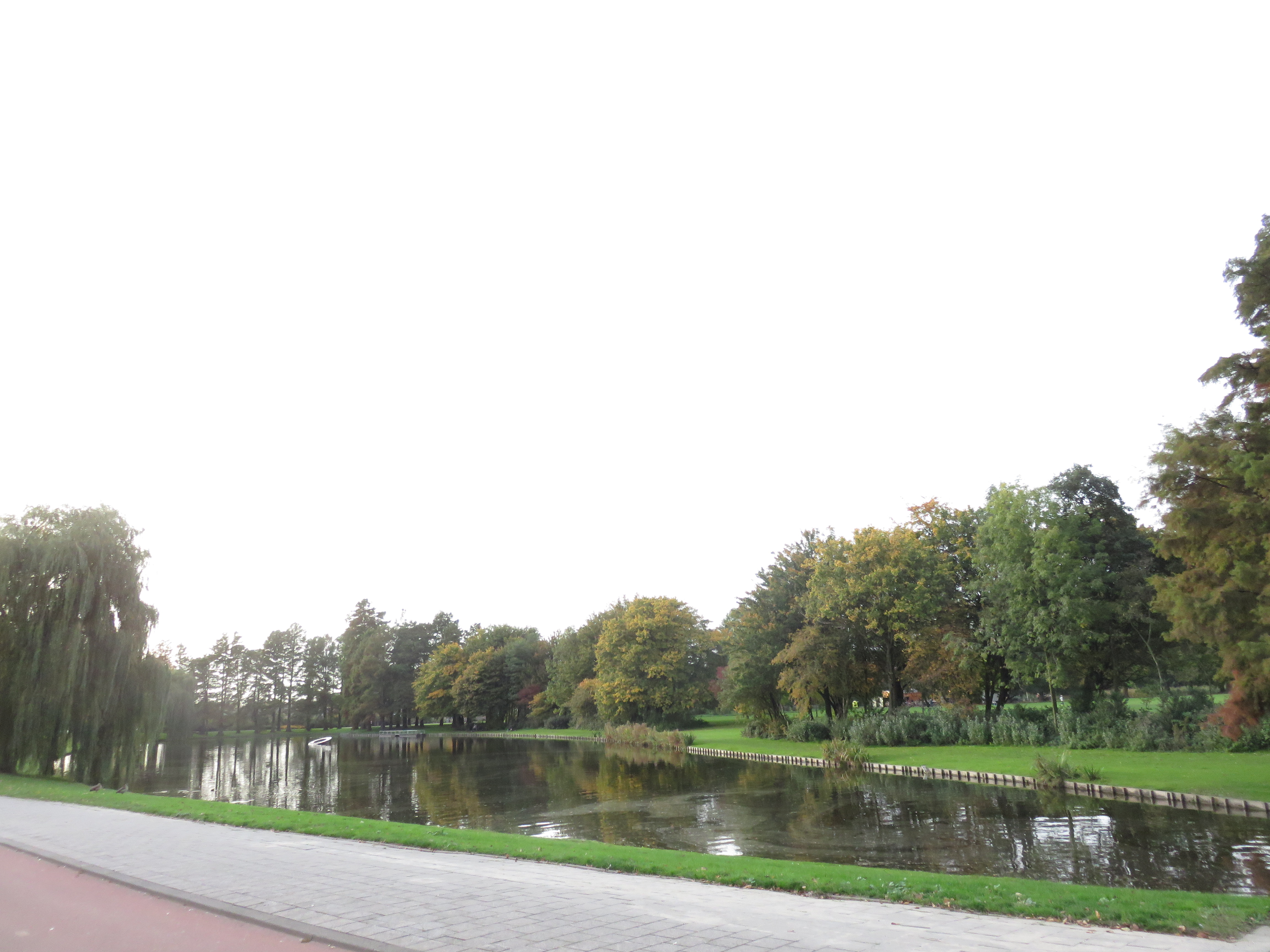 Vroesenpark Rotterdam